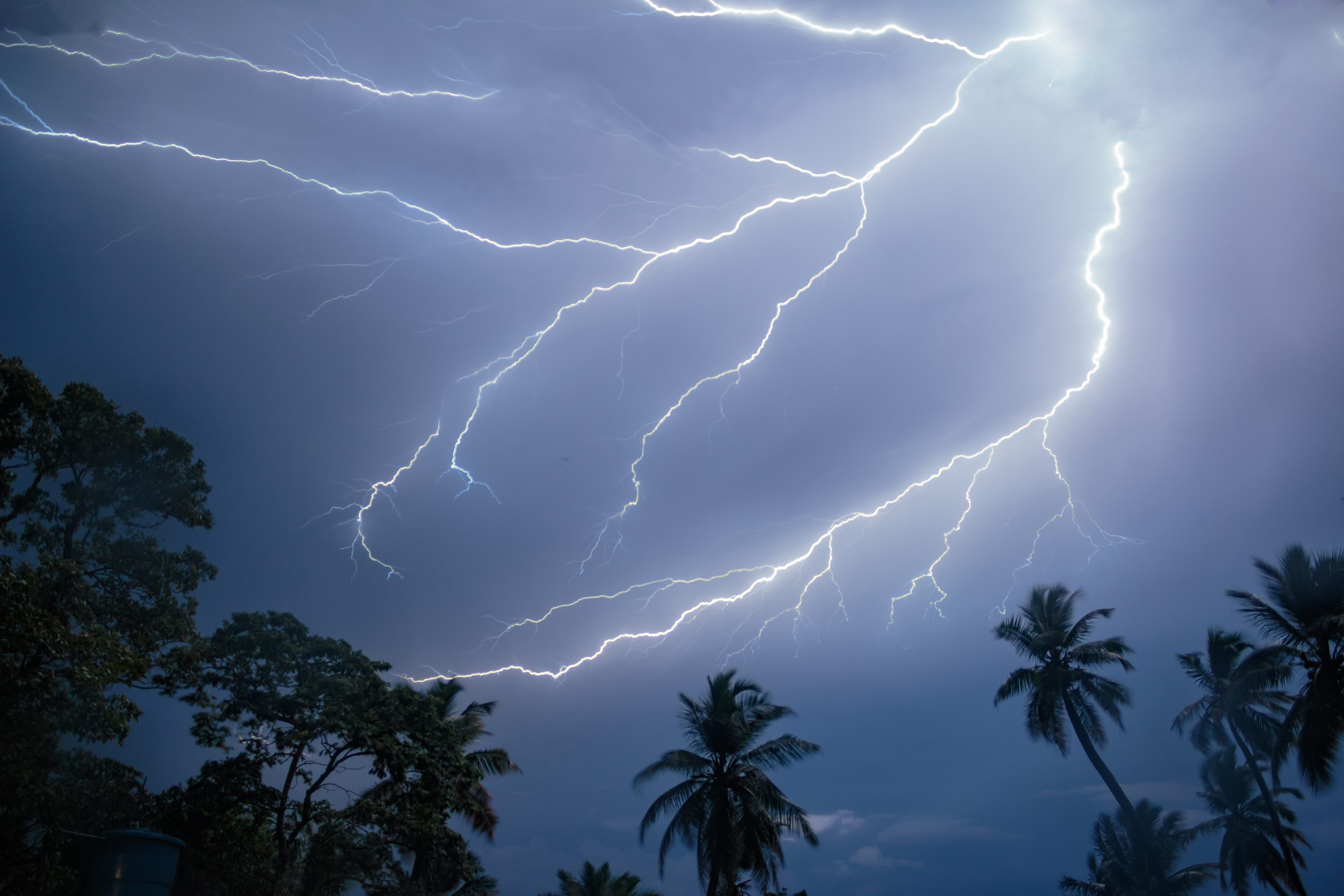 The Catatumbo Lightning is an atmospheric phenomenon in Venezuela. It occurs only over the mouth of the Catatumbo River where it empties into Lake Maracaibo. The frequent, powerful flashes of lightning over this relatively small area are considered to be the world's largest single generator of tropospheric ozone